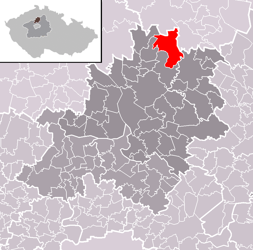 Location of Dobřeň municipality within Mělník District and administrative area of Mělník as a Municipality with Extended Competence.